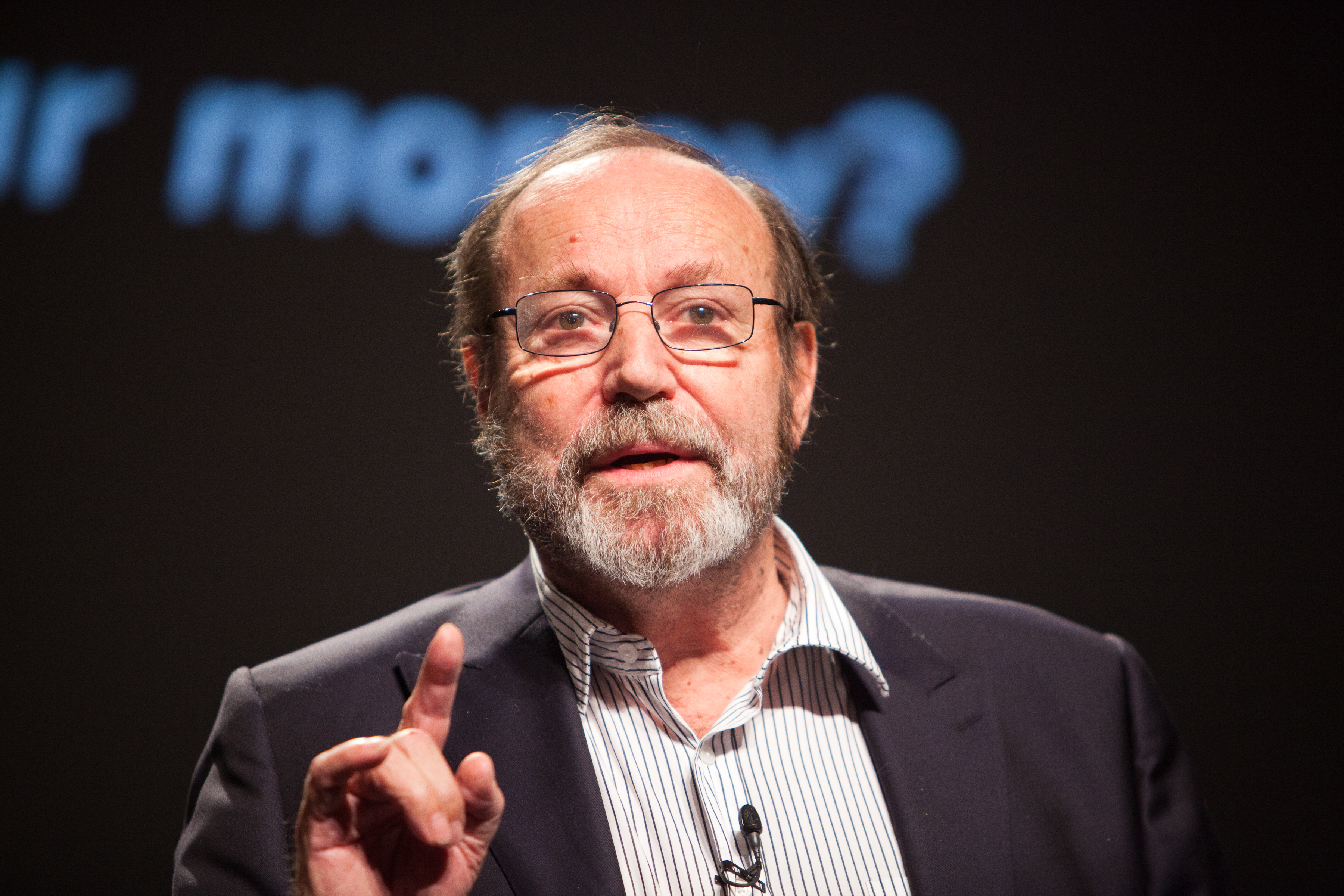 Bernard Lietaer promotes the need for monetary diversity as a means of stability diversity and complementary currencies, as a means of stability photo by Kris Krüg for PopTech